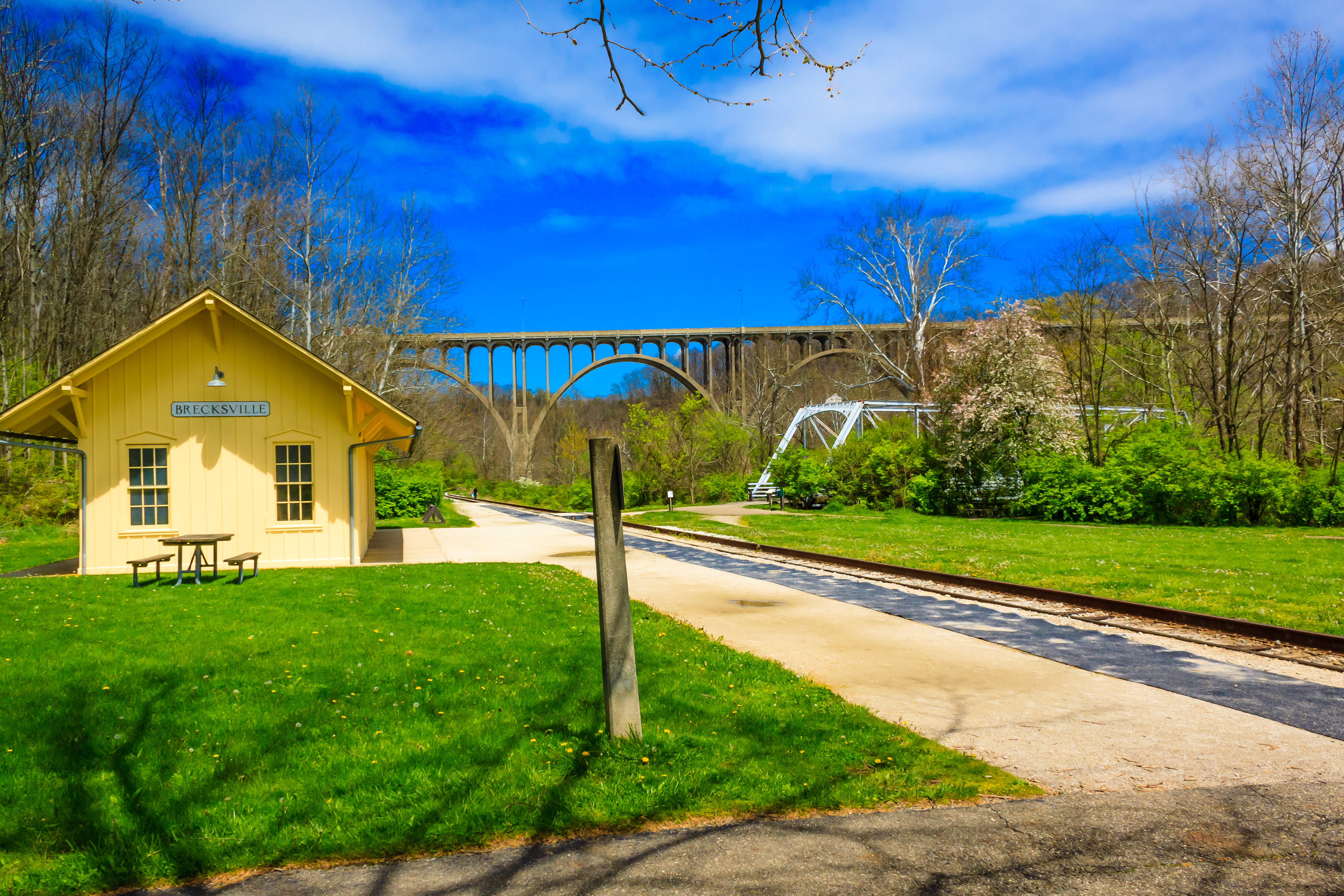 A view of the Brecksville-Northfield High Level Bridge, taken from the Station Road area, beside the Cuyahoga Valley Scenic Railway's Brecksville Station.